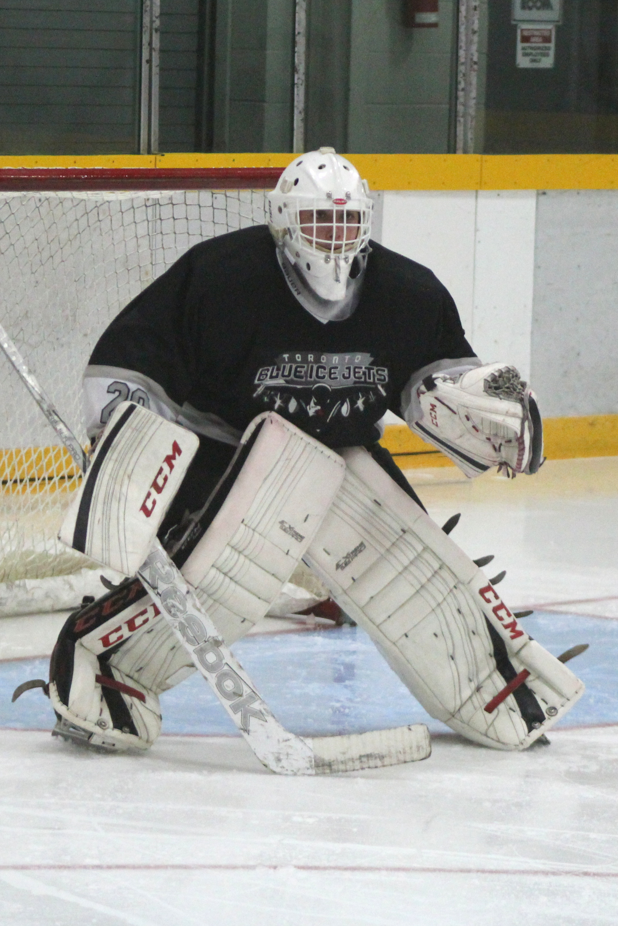 These images of GMHL Action action during the 2015-16 season are taken by Devan Mighton.